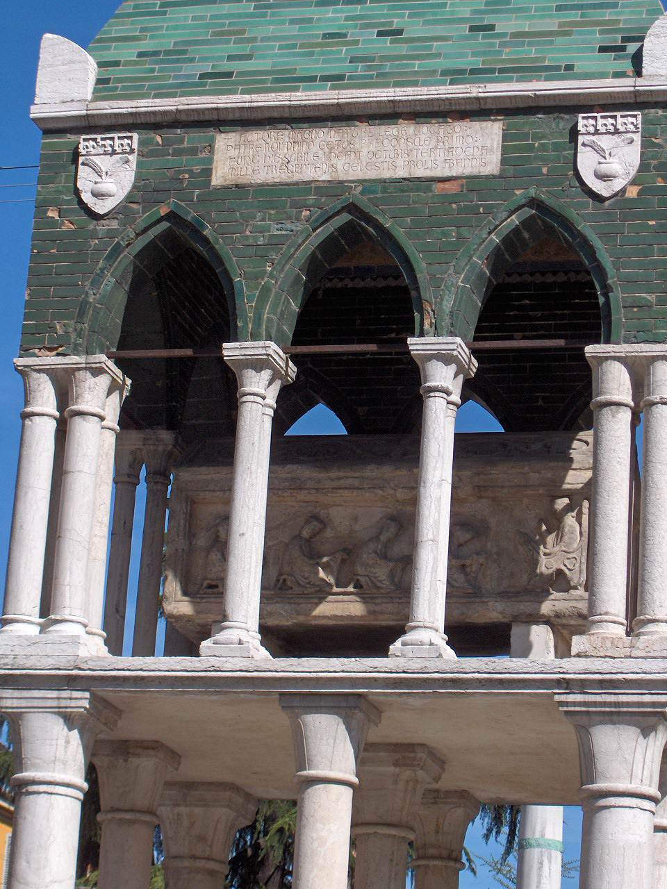 Tomb of Rolandino de' Passeggeri (close-up); Basilica of Saint Dominic, Bologna, Italy